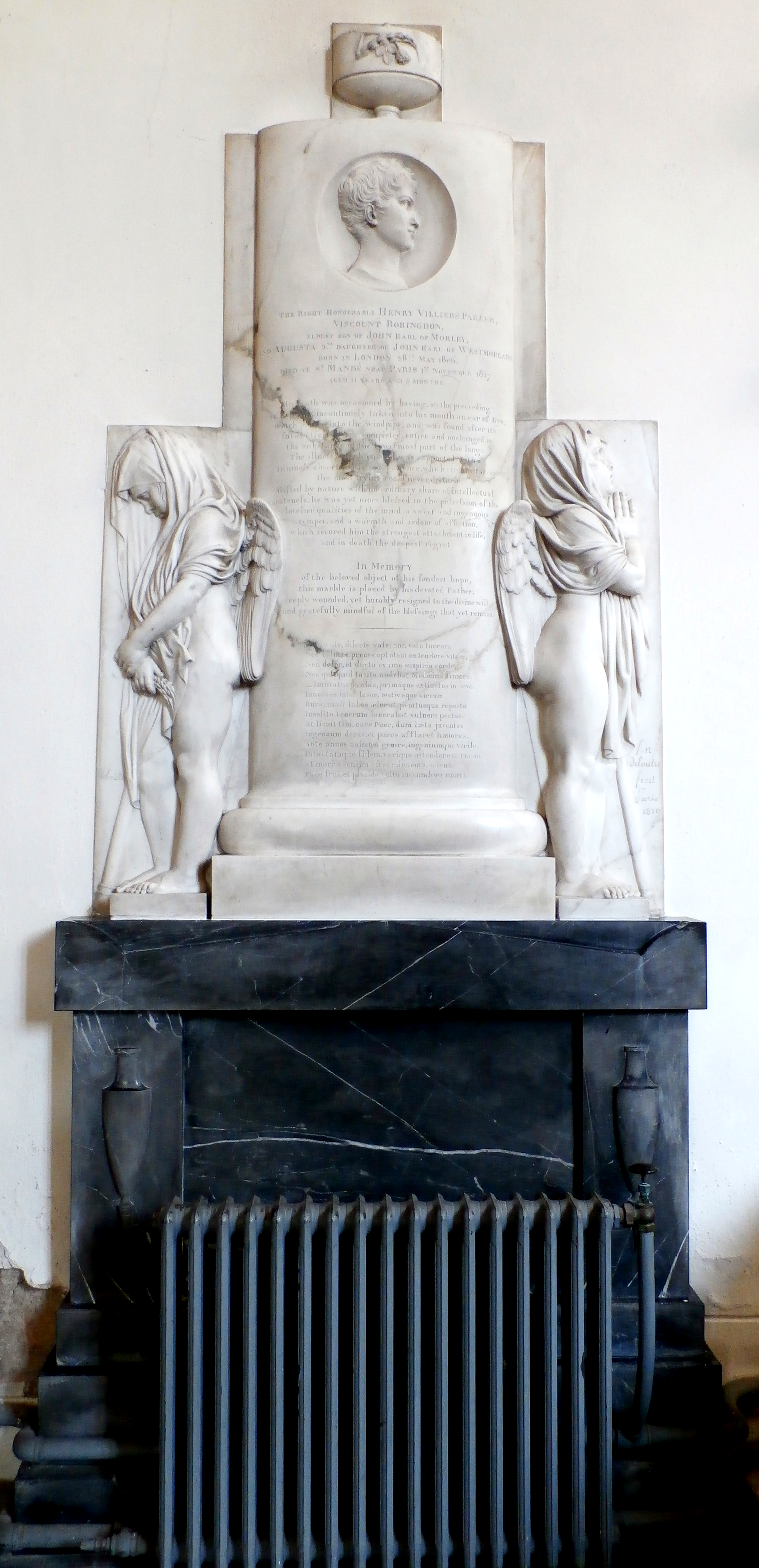 1819 monument by François-Nicolas Delaistre to Henry Villiers Parker, Viscount Boringdon (28 May 1806-1 November 1817), who died near Paris aged 11, eldest son and heir apparent of John Parker, 1st Earl of Morley (1772-1840) of Saltram House in the parish of Plympton, Devon. By F.N. Delaistre, Paris, 1819, St Mary's Church, Plympton.